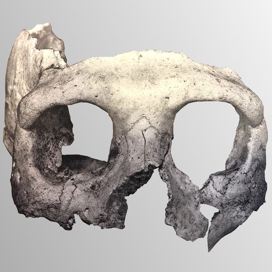 The original Krapina 3 skull as illustrated in Der diluviale Mensch von Krapina in Kroatien (1906), by Dragutin Gorjanović-Kramberger